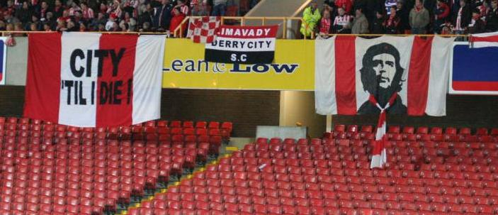 DCFC flags. Personal photo. Cropped.